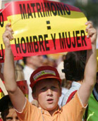 Protests against same-sex marriage in Spain